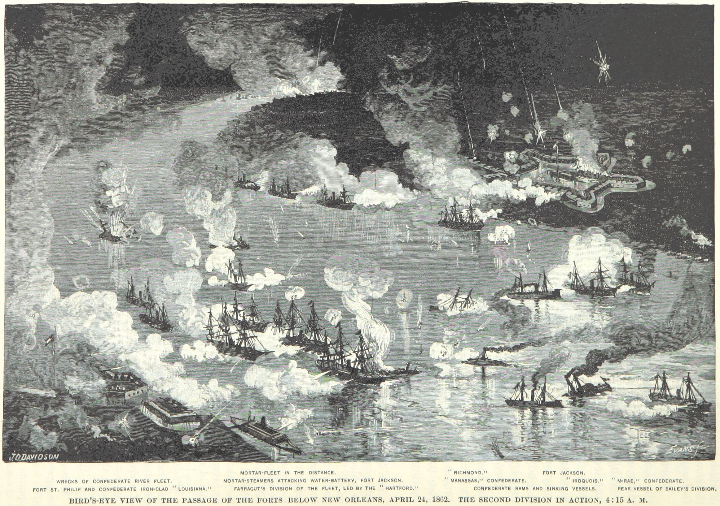 Admiral Farragut's second division passes the forts during the Battle of Forts Jackson and St. Philip.